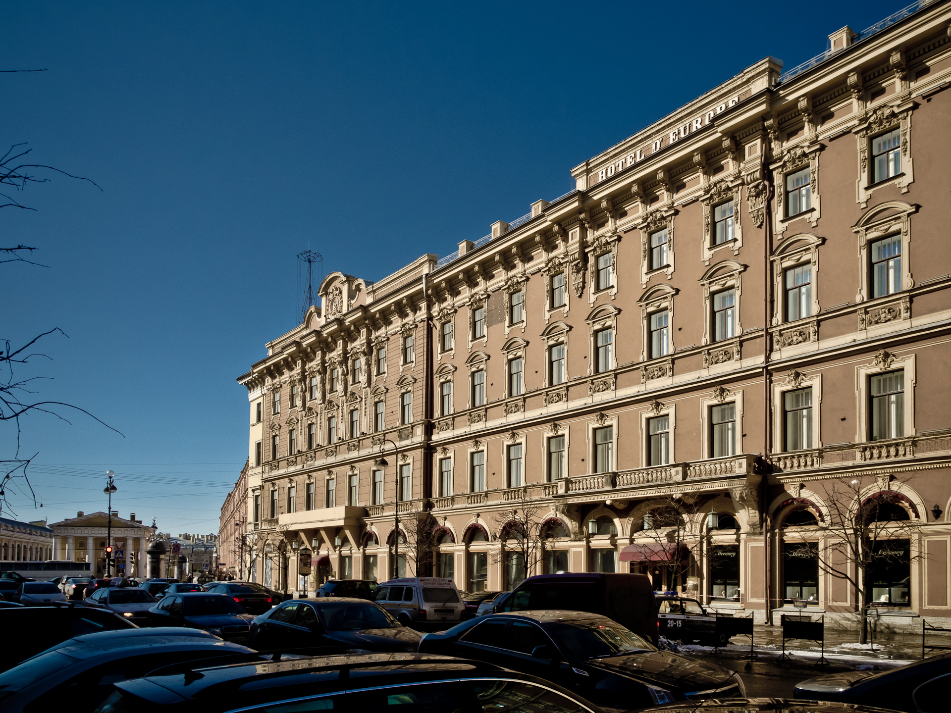 The Grand Hotel Europe in Saint Petersburg